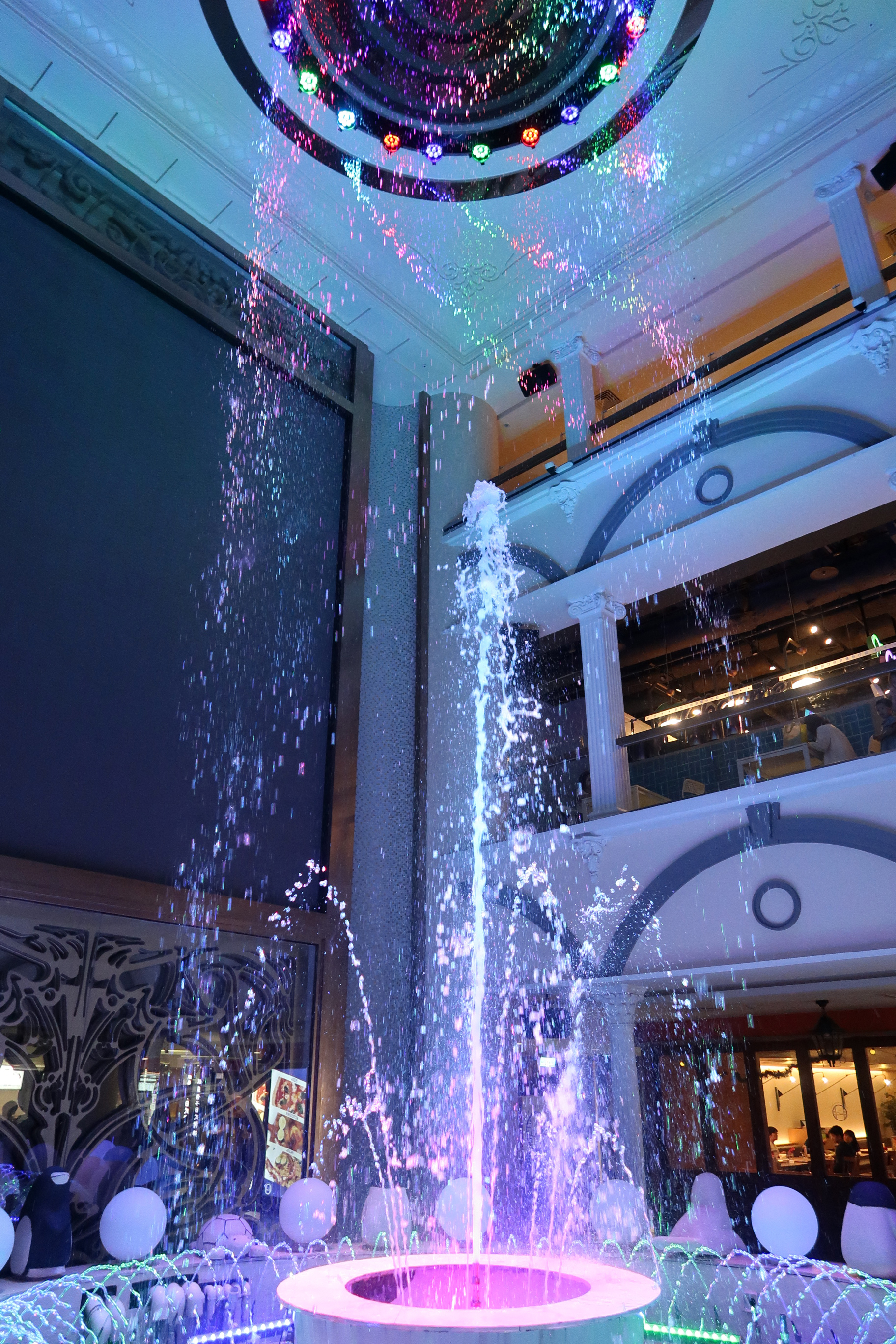 Kuang San SOGO Department Store Music Fountain